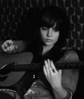 Photograph of musician Courtney Marie Andrews by Tony Woolliscroft, taken 2010